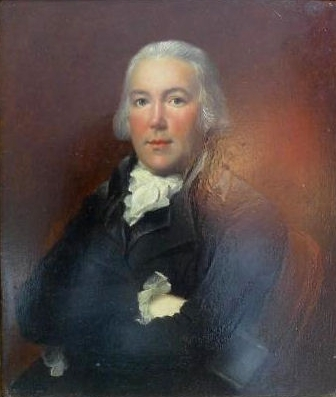 William Woodville, MD, FRS, FLS, /Physician to the Middlesex Hospital and Small Pox Hospital/ Born at Lowswaid 1752 dield in London 1805/ This portrait was the property of Dr Woodville's friend Dr Piel, and was bequeathed by him together with his own portrait to Joseph Steel esq of Cockermouth who's son Edward Steel presented it to William …….of Birkby